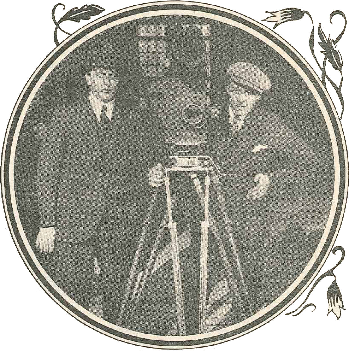 Swedish film director Gustaf Edgren (1895-1954) and Swedish cinematographer Hugo Edlund (1883-1953) in an article from the magazine Film och scen 1928.